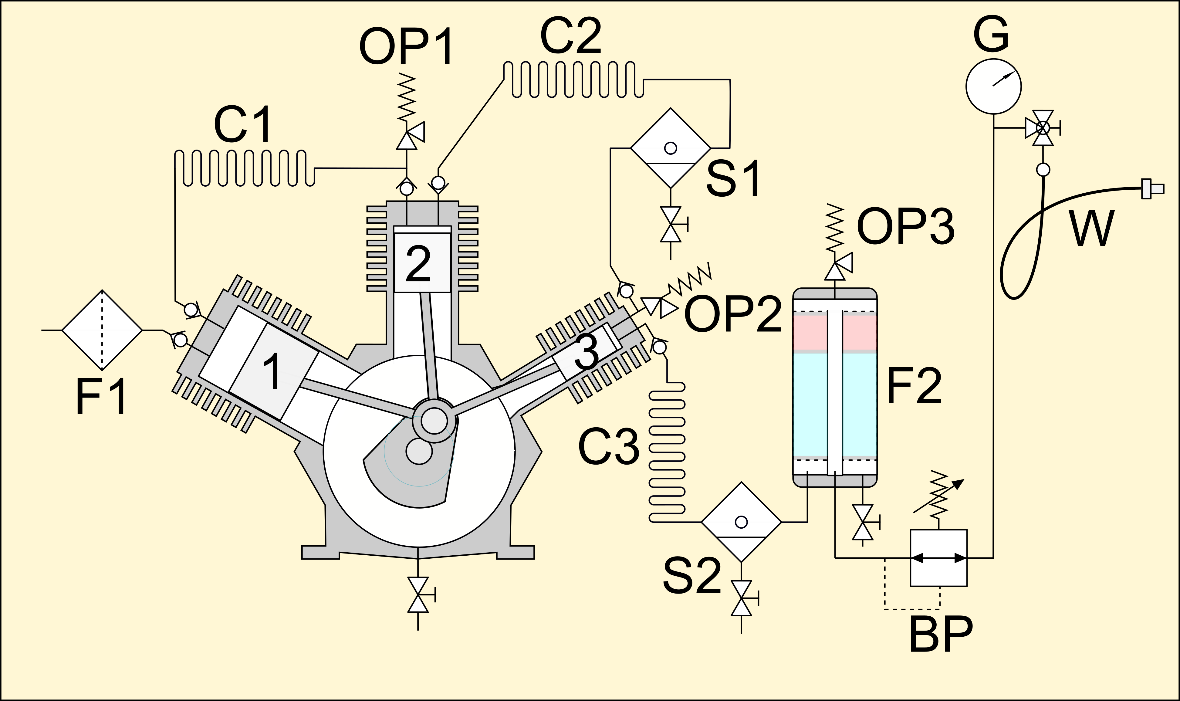 3 stage compressor schematic showing gas path, valves and filters: F1: intake filter1: first stage pistonC1: first stage cooling coilOP1: overpressure valve2: second stage pistonC2: second stage cooling coilS1: second stage water serparatorOP2: overpressure valve3:third stage pistonC3:third stage cooling coilS2: third stage water separatorF2:main filter stackOP3:overpressure valveBP:back-pressure valveG:pressure gaugeW:filling whip